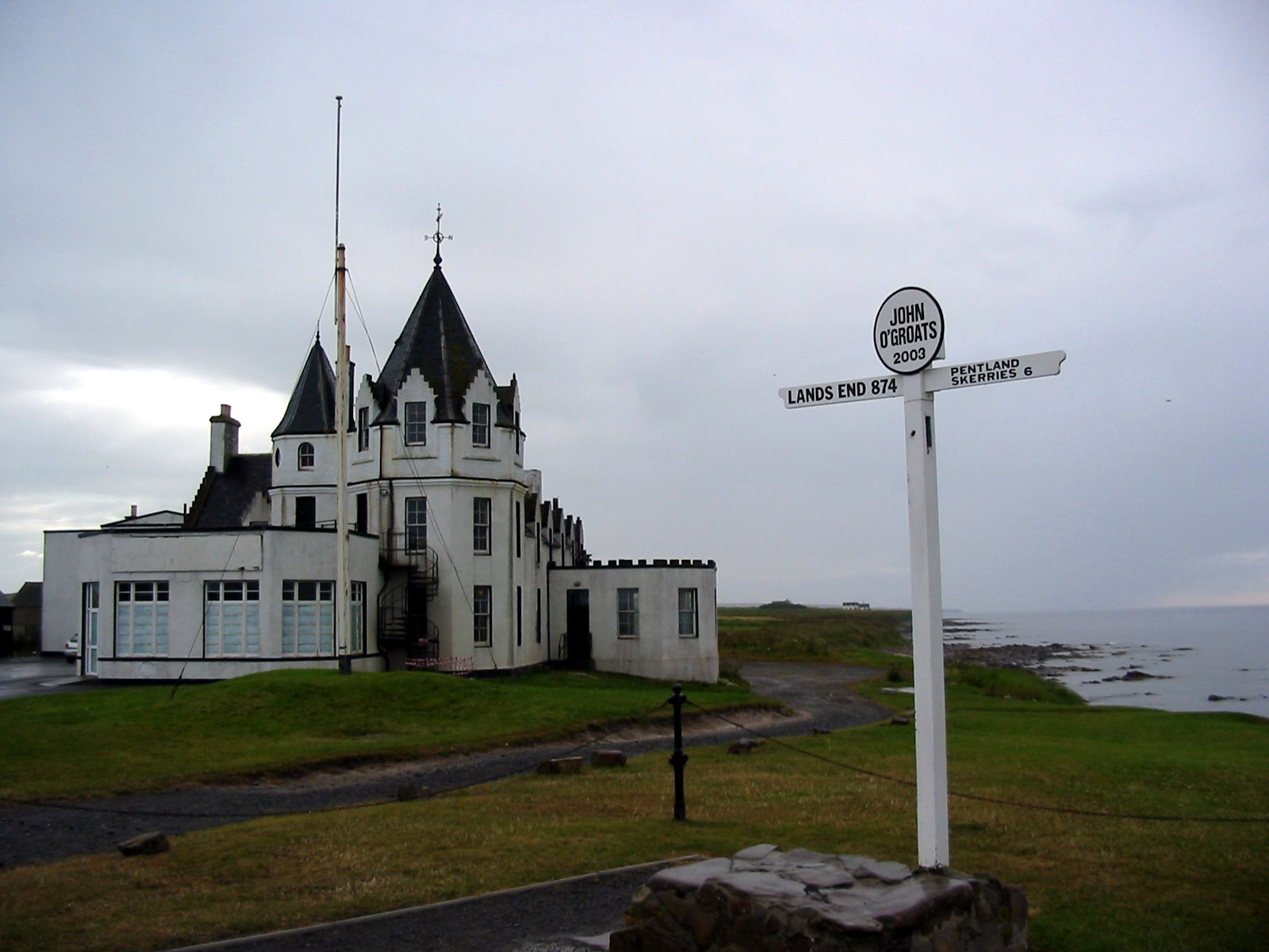 John o' Groats in Scotland. The sign indicates distances to Land's End, 874 miles (1,407 km), and Pentland Skerries, 6 miles (9.7 km).